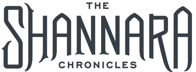 "The Shannara Chronicles" Logo